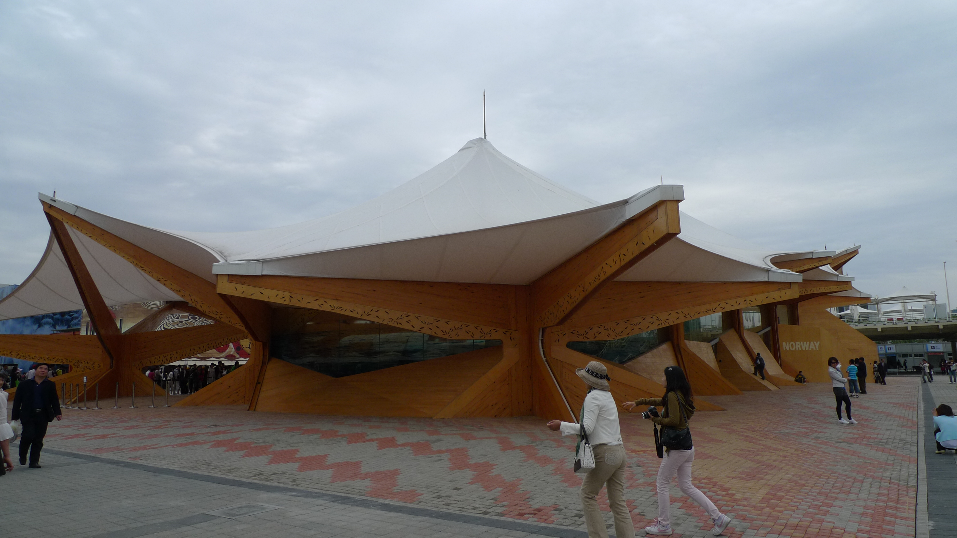 Norway Pavilion of Expo 2010